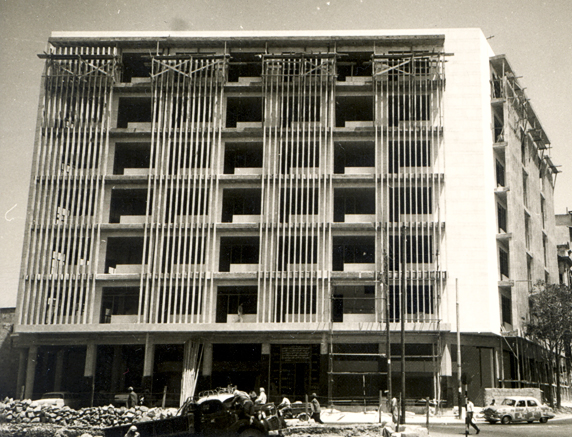 Building designed by Wahbi al-Hariri-Rifai for the Lawyer's Pension Fund Association Aleppo, Syria, under construction in 1964. Later served as the building of the Aleppo city council until the beginning of the 2000s.